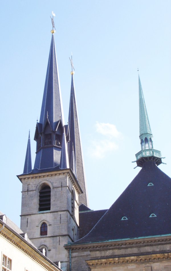 Spires of the cathedral Our-Lady in Luxembourg.